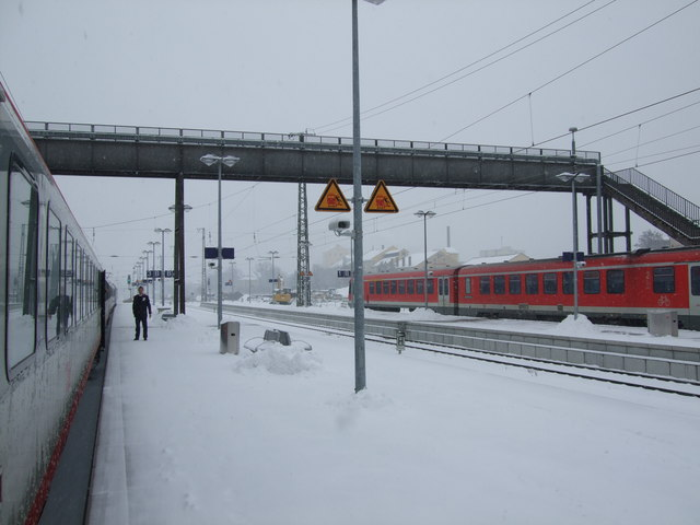 Rosenheim Railway Station